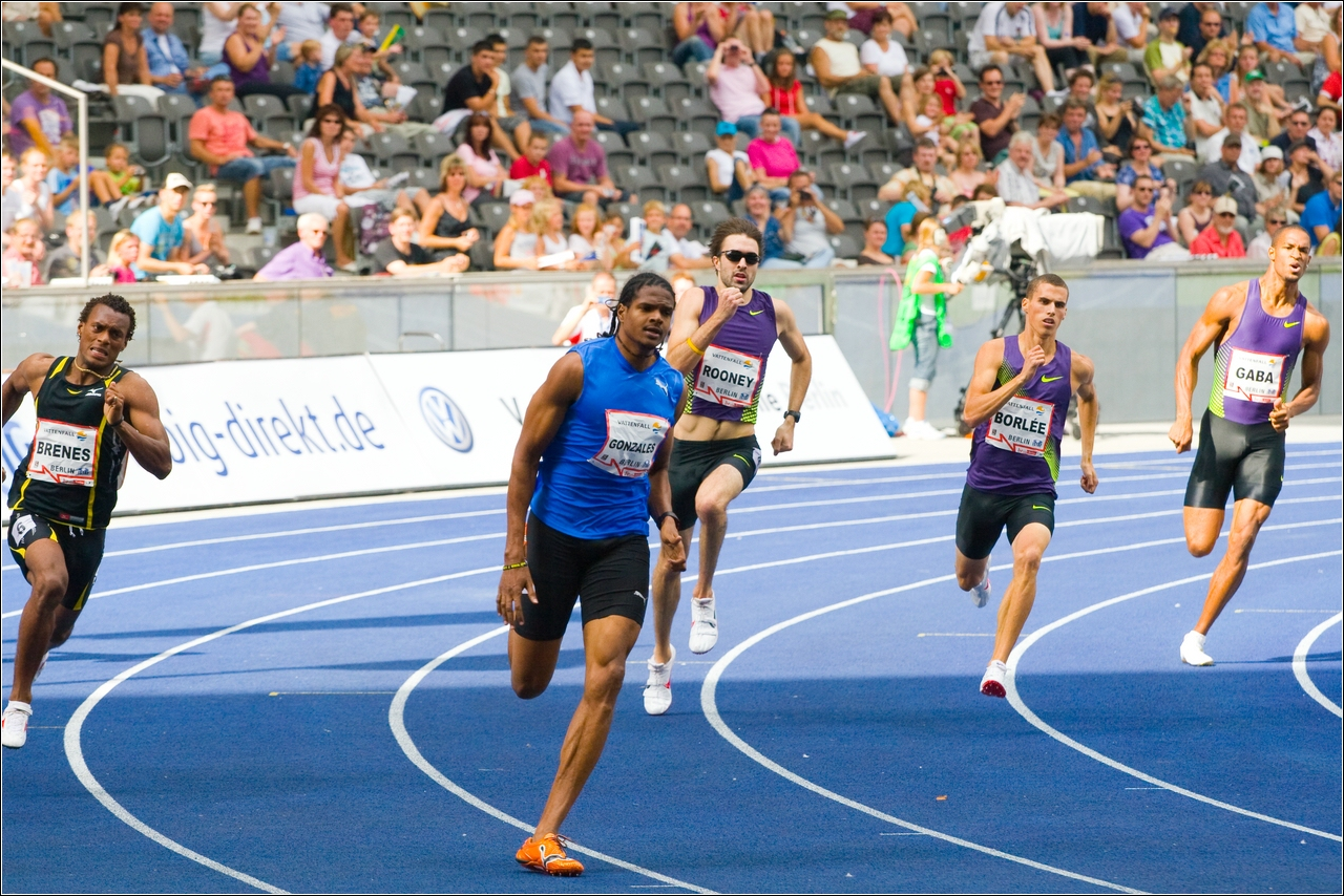 400 m during 2010 ISTAF Berlin (Nery Brenes, Jermaine Gonzalez, Martyn Rooney, Kevin Borlee, Kamghe Gaba)